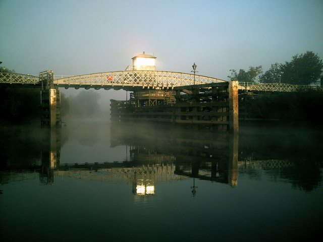 Cawood bridge, river Ouse at sunrise